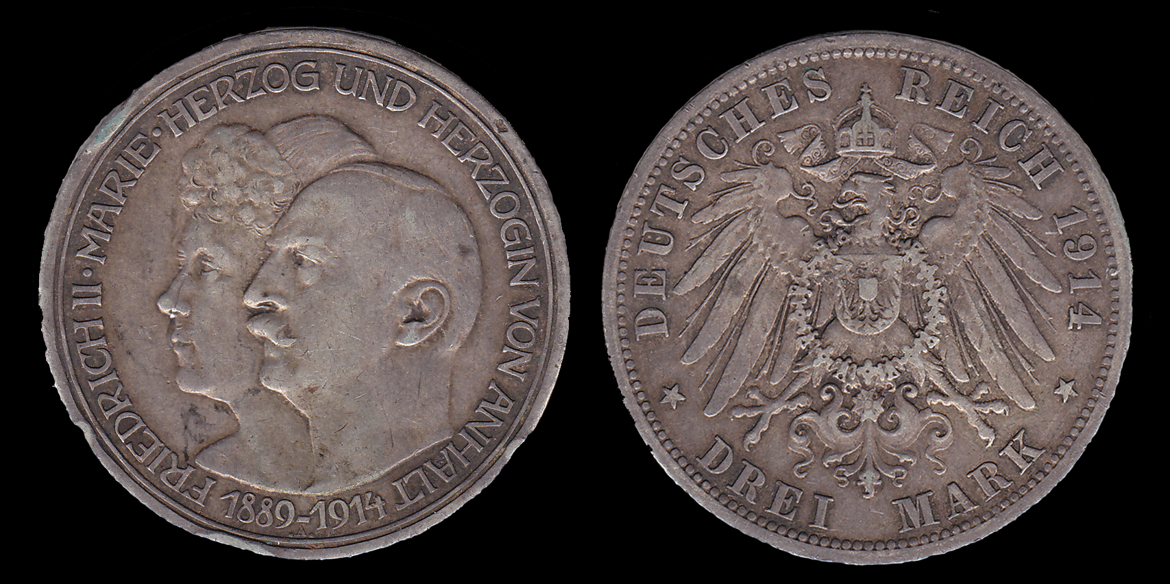 Coin of Frederick II of Anhalt, Struck 1914